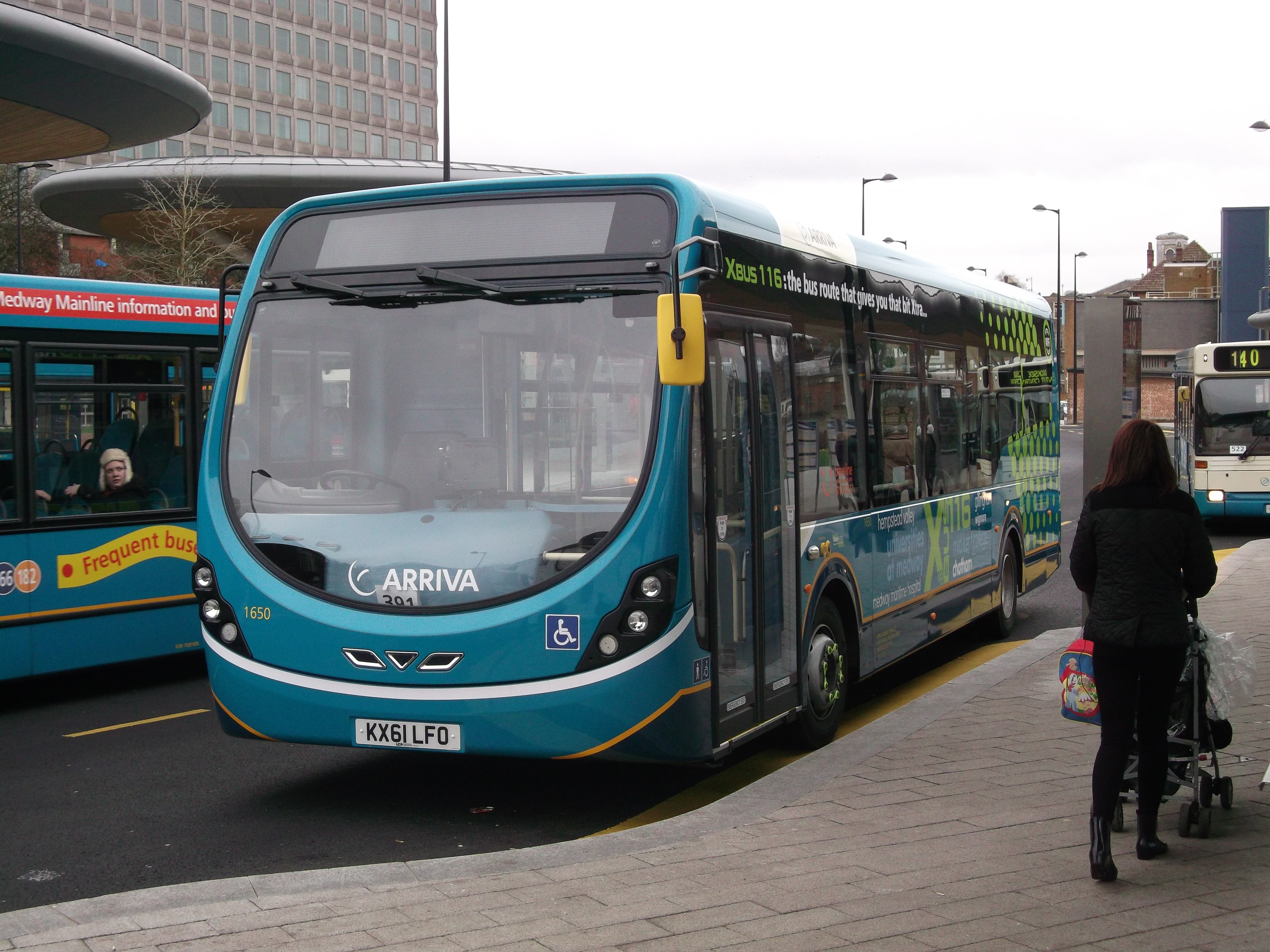 New Arriva bus in Chatham Bus Interchange (2), Data from Geograph: Description: This bus is part of a group of 5 new buses bought by Arriva to travel between Chatham, the Universities of Medway, Mid Kent College, Gillingham and Medway Hospital. See... more ICBM: 51.385182867202, 0.52433268252352 Location: (about 1 km from) near to Brompton, Medway, Great Britain.